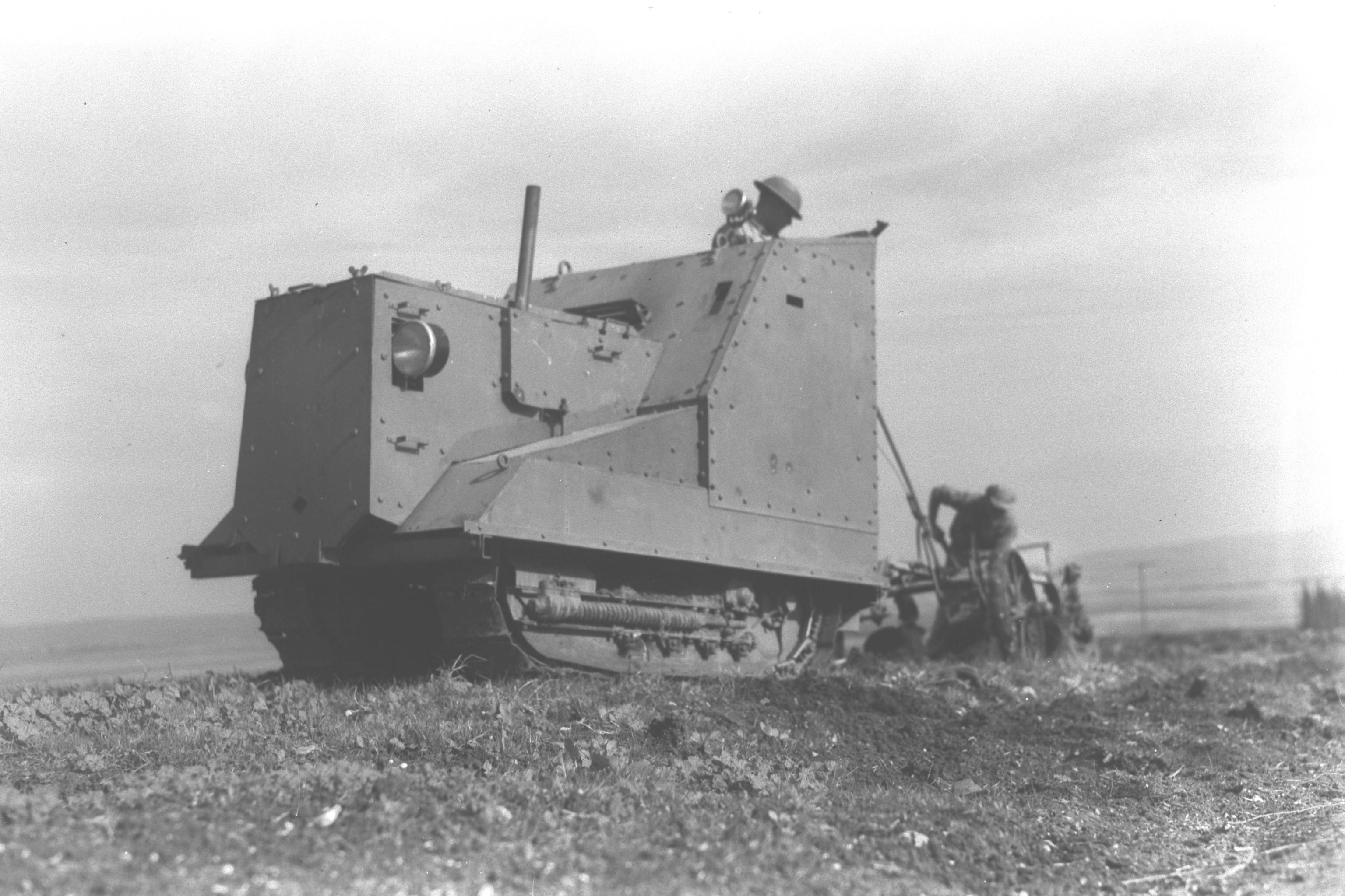 AN ARMOURED TRACTOR PLOUGHING A FIELD AT KIBBUTZ MISHMAR HAEMEK